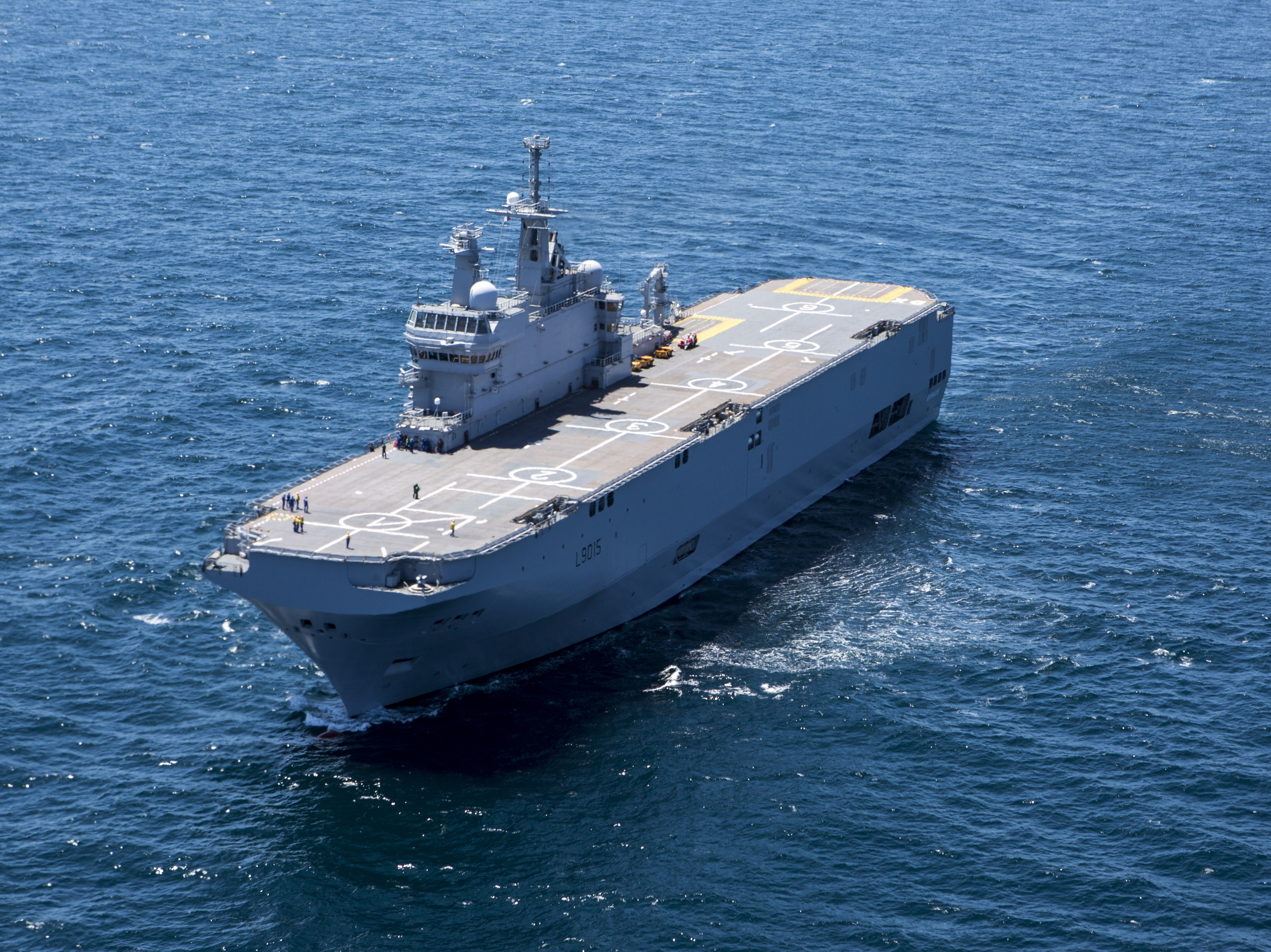 The French Marine Nationale amphibious assault ship Dixmude (L9015) underway awaiting the arrival of a U.S. Marine Corps Boeing MV-22B Osprey from Marine Medium Tiltrotor Squadron 263 (VMM-263). VMM-263 was assigned to the Special Purpose Marine Air-Ground Task Force-Crisis Response-Africa (SPMAGTF-CR-AF) in the Gulf of Cadiz.